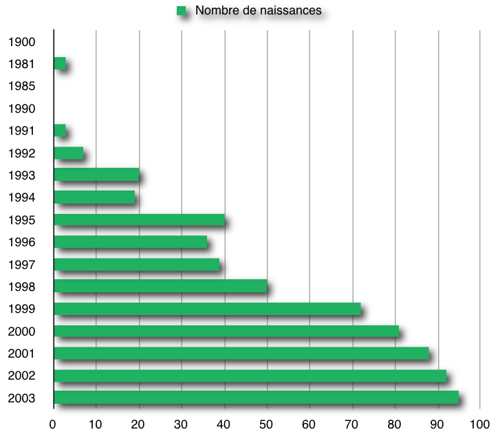 Chart: A number of births using the name Thelma from 1900 to 2003